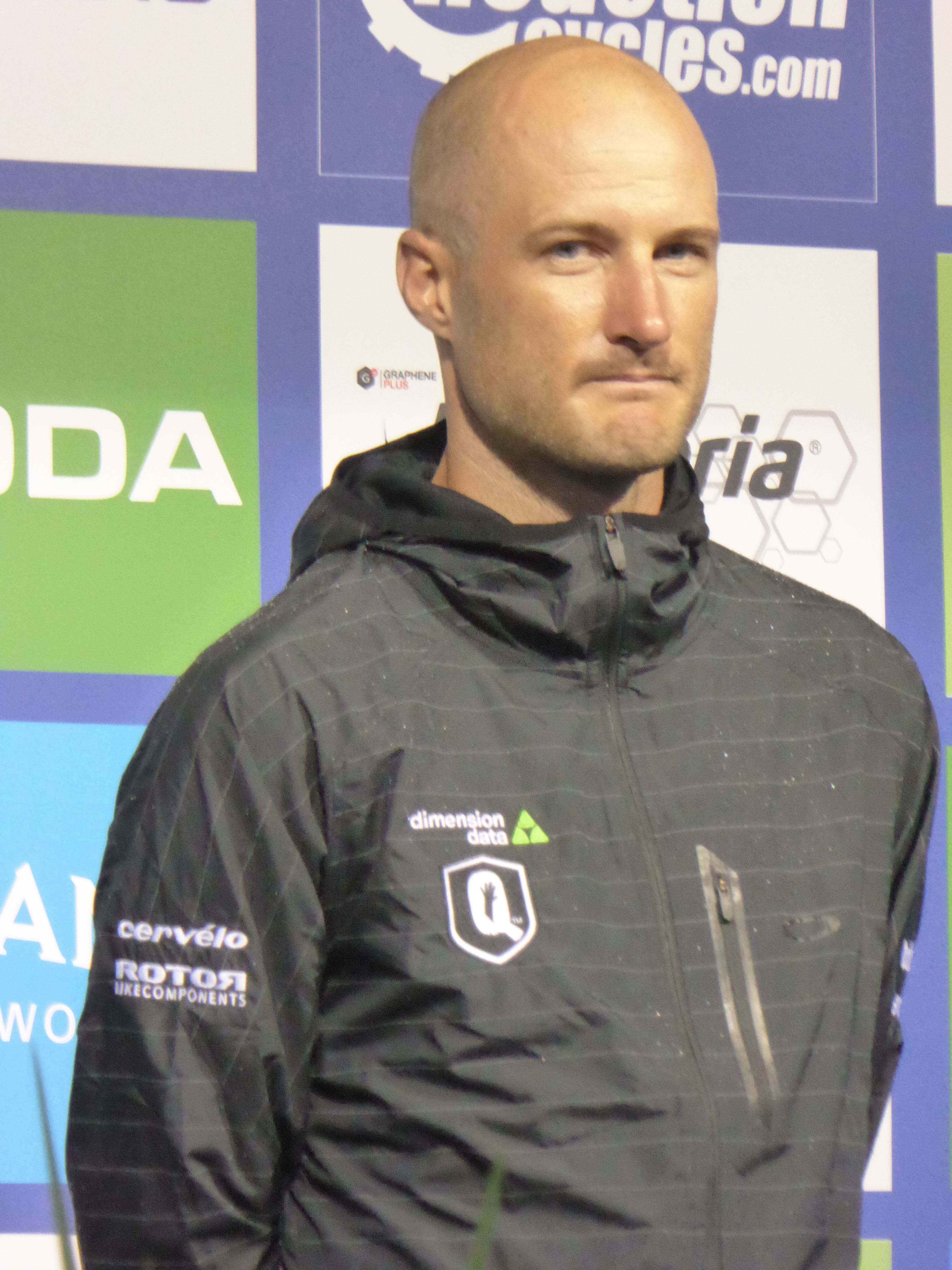 Steve Cummings (Team Dimension Data), pictured at the 2016 Tour of Britain team presentation in Glasgow on 3 September 2016.